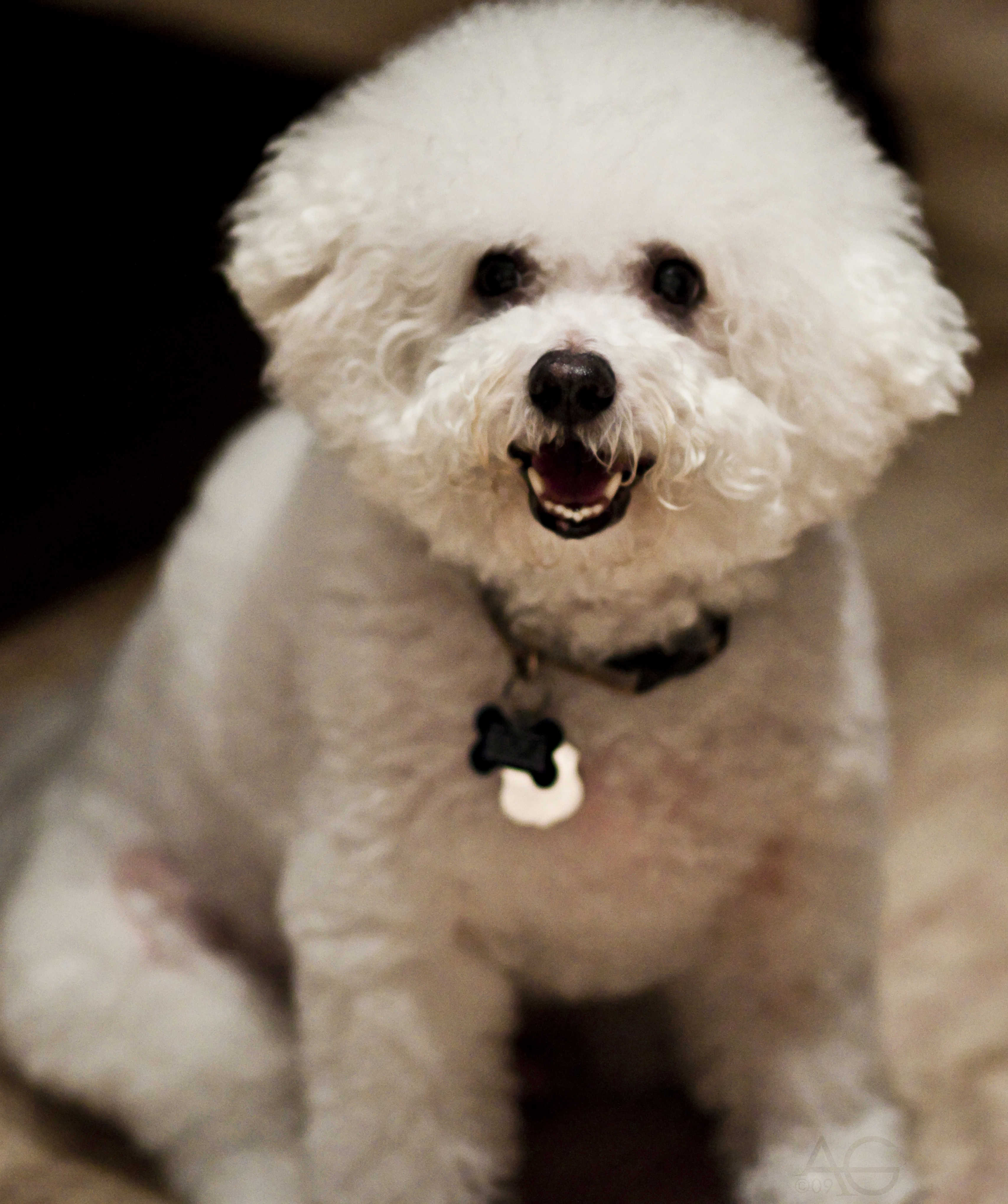 Dog, Bichon, Frise, White, Fluffy, Canine, Domestic, Pet